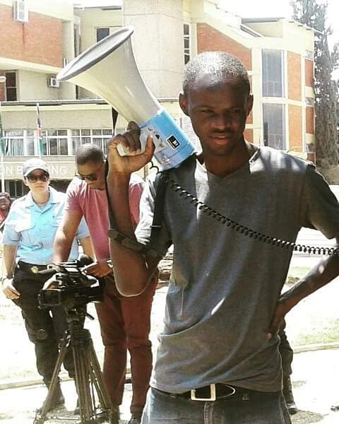 Mr. Kalimbwe Joseph at Namibia Youth Organization